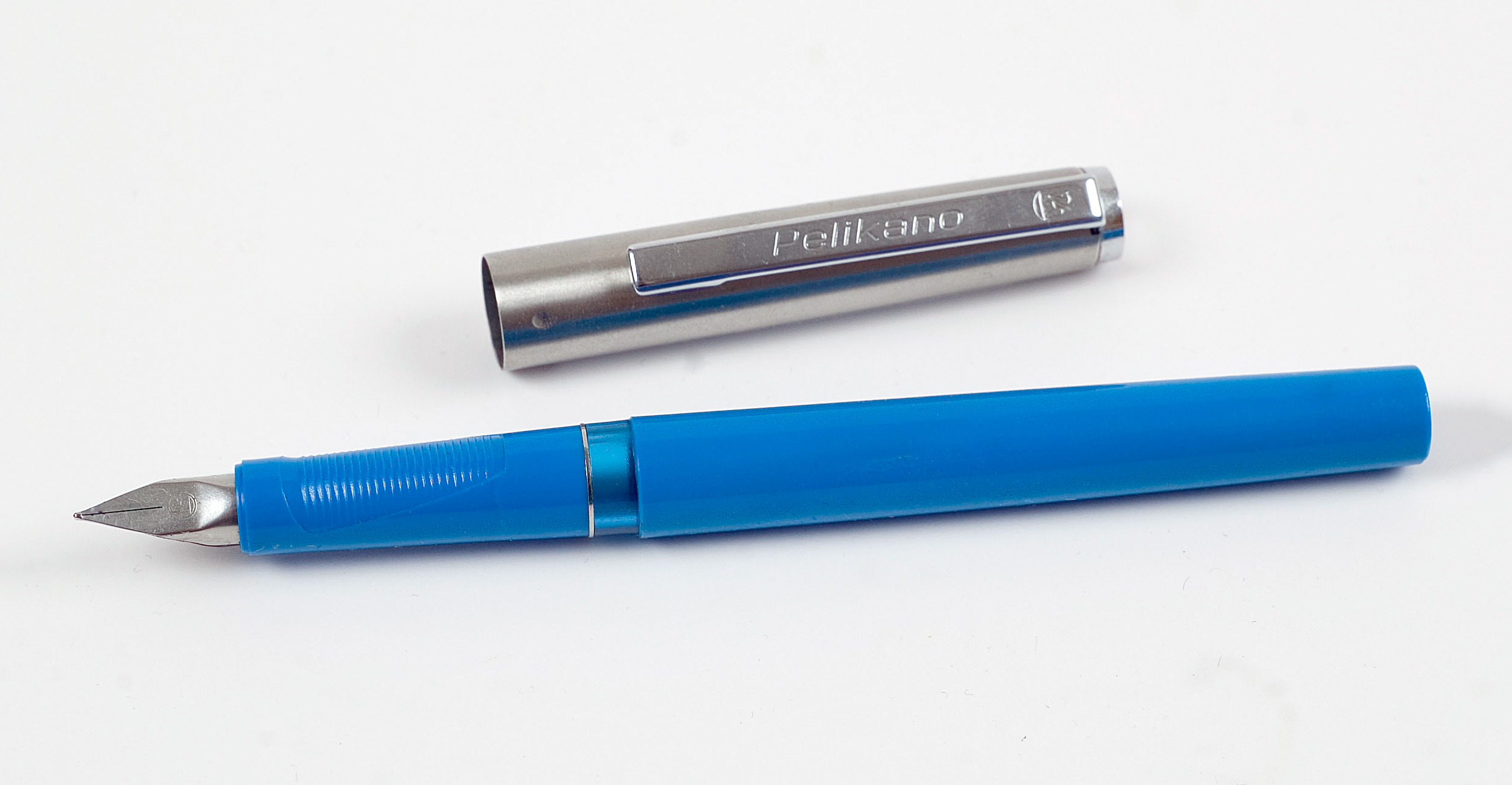 Pelikan Pelikano fountain pen. The Pelikano fountain pen is intended for students/young writers and features a non uniform round grip section optimized to be held with a 'tripod pen grip'.